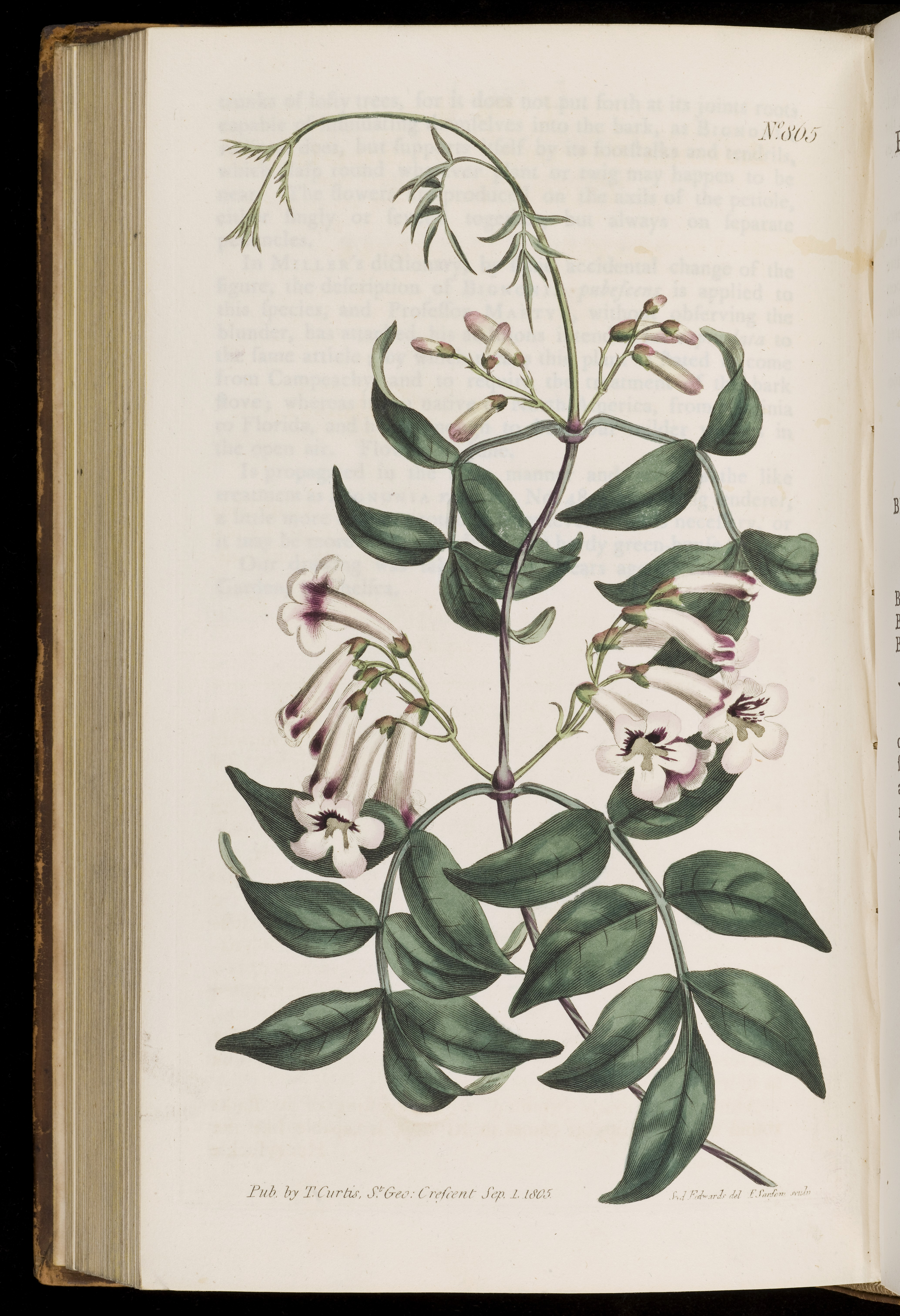 Bignonia Pandorae. Norfolk-Isalnd Trumpet-Flower. (Today Pandorae pandorana) Rare Books Keywords: Botany